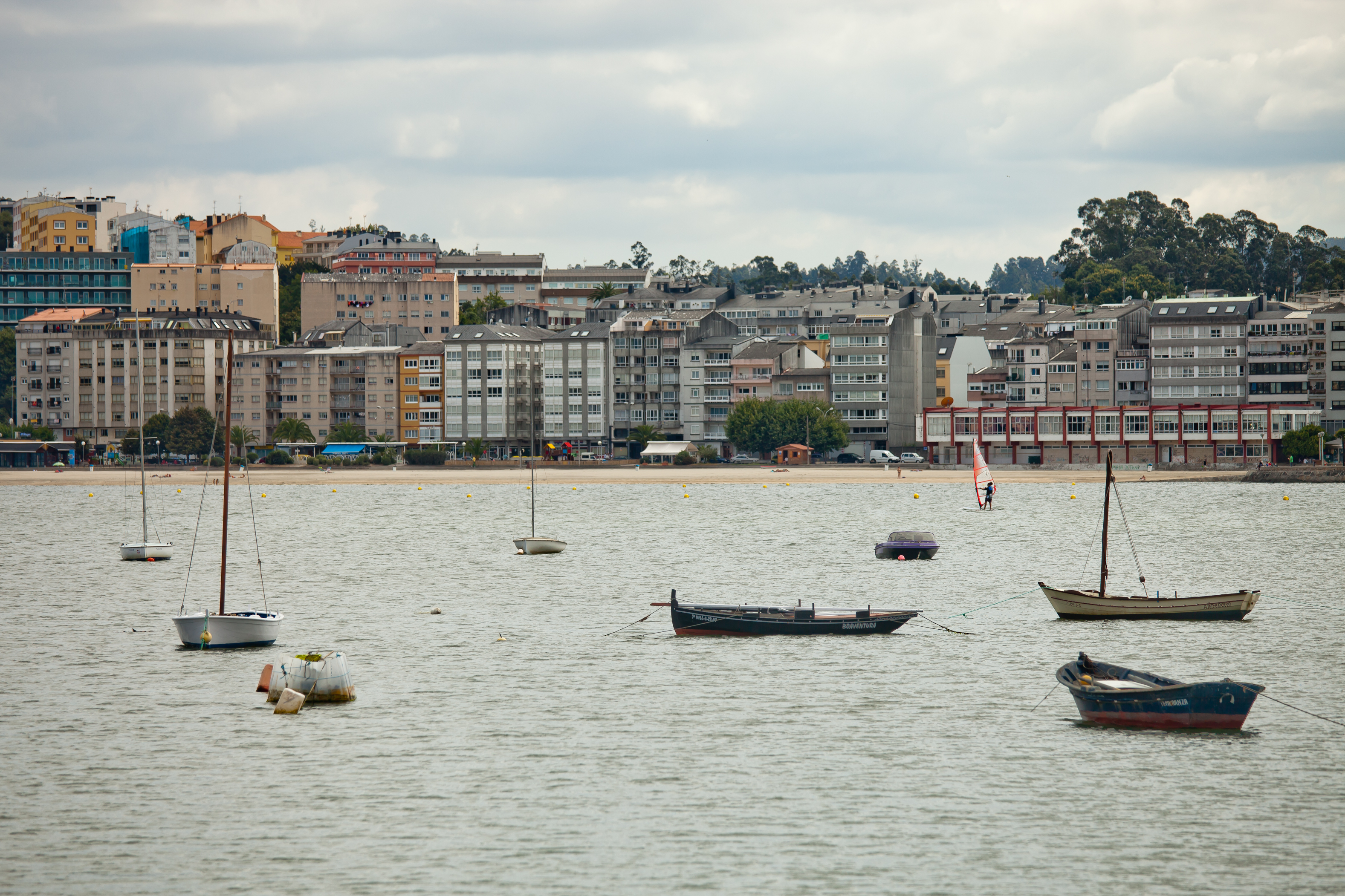 Sada, Galicia, SpainGalego: Sada, Galiza